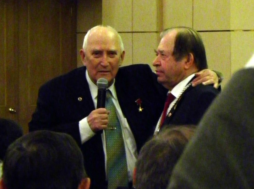 Arkady Shipunov (at the left), Vasily Starodubtsev (at the right), 2011-12-28 (?)